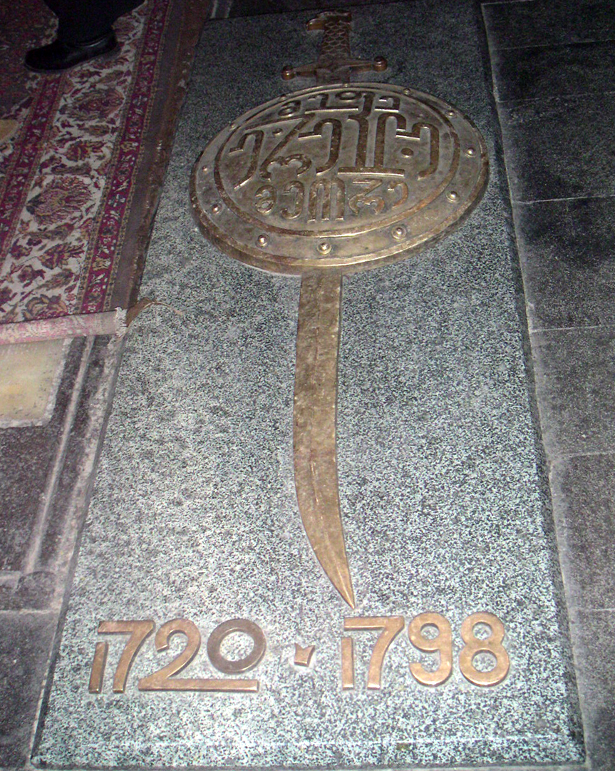 tomb of King Erakli II of Georgia in Svetitskhoveli cathedral.